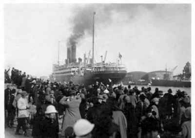 Scandinavina America Line's S.S. Frederik VIII departing Copenhagen, Oct 1925